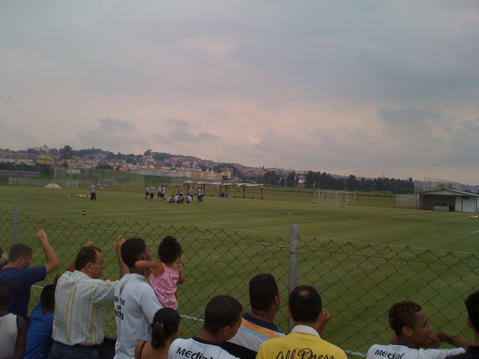 Field Training of Sport Club Corinthians Paulista, located on highway Ayrton Senna